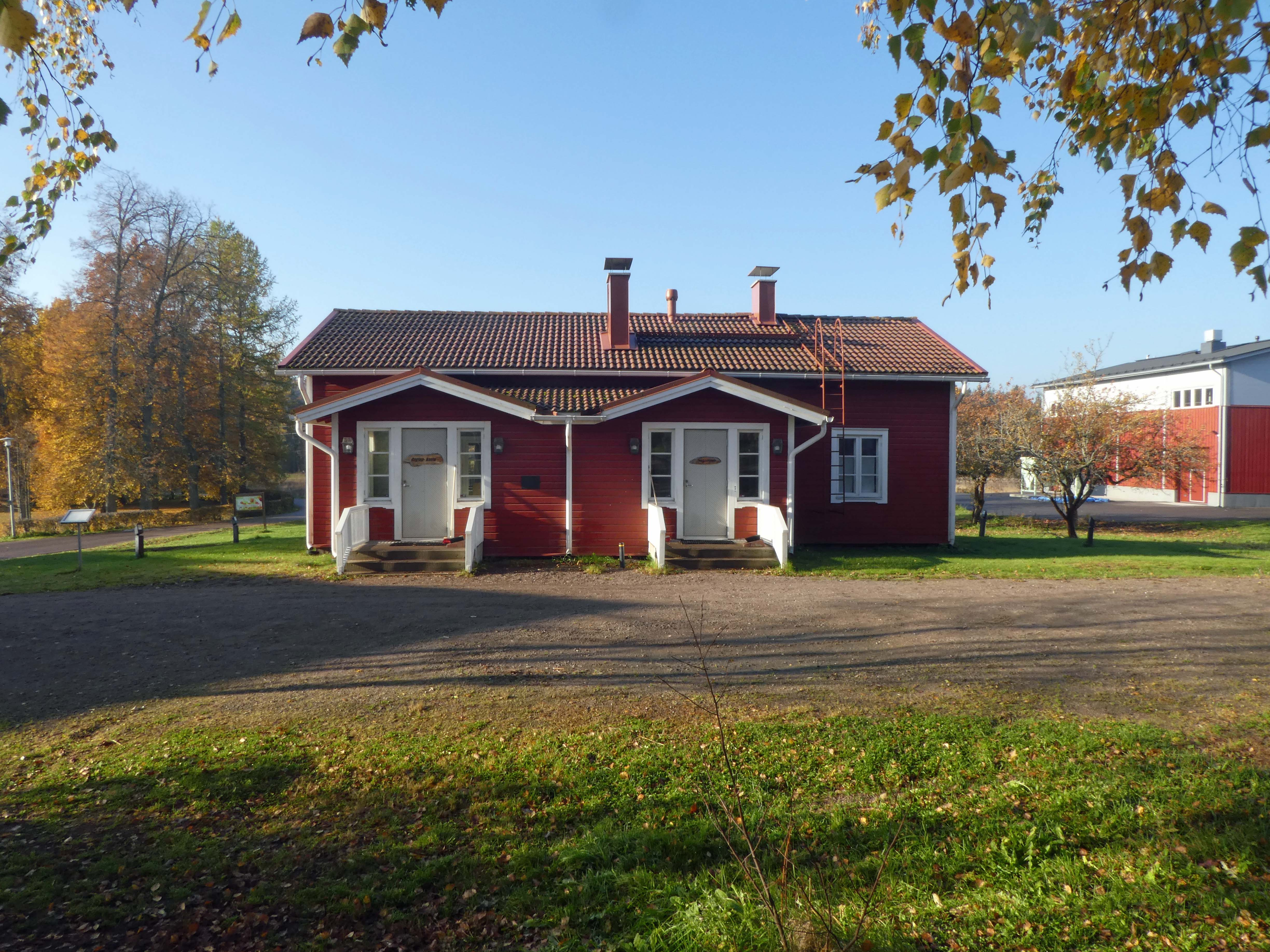 The Regina school house, one of the first still remaining school houses in Finland